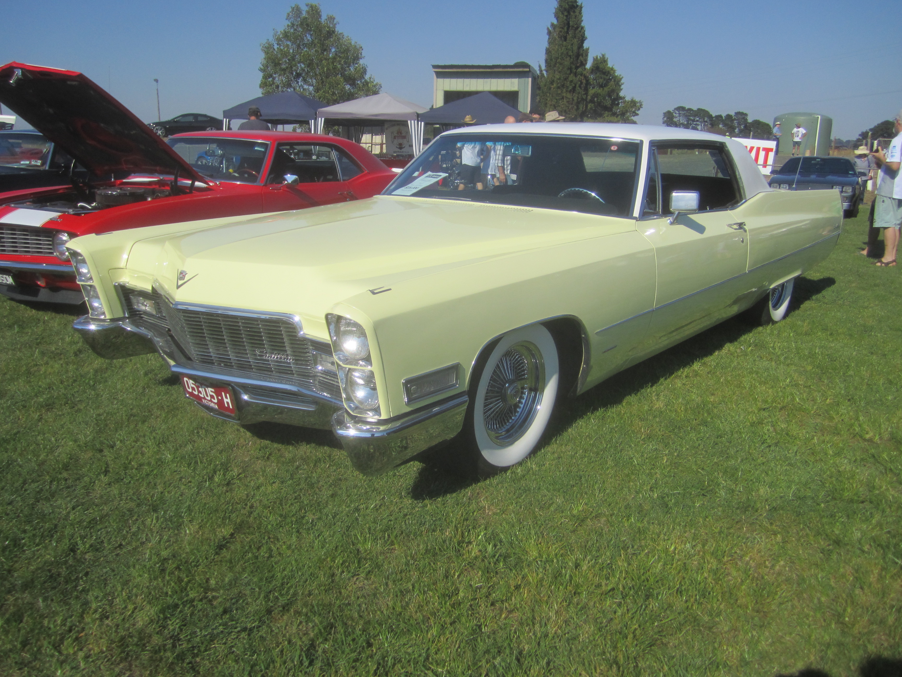 The Cadillac was redesigned in 1965, the tail fins were gone, it got sharp distinct body lines and featured vertically stacked headlights and vertical tail lights. The update in 1967 saw the front end now leaning forward and in 1968 the grille had a higher section in the centre and a finer mesh, the hood was also longer to allow for recessed windshield wipers. Available in 1968 was the base Calais in 4 door sedan, 2 and 4 door Hardtop, the mid spec deVille in the same but Convertible as well, and top spec Sixty Special Sedan (available with higher spec Brougham option), 75 Series Limousine and Eldorado (now 2 door Hardtop and based on the front wheel drive Oldsmobile Toronado with hidden headlights). Engine; new for 1968 429 cu in V8